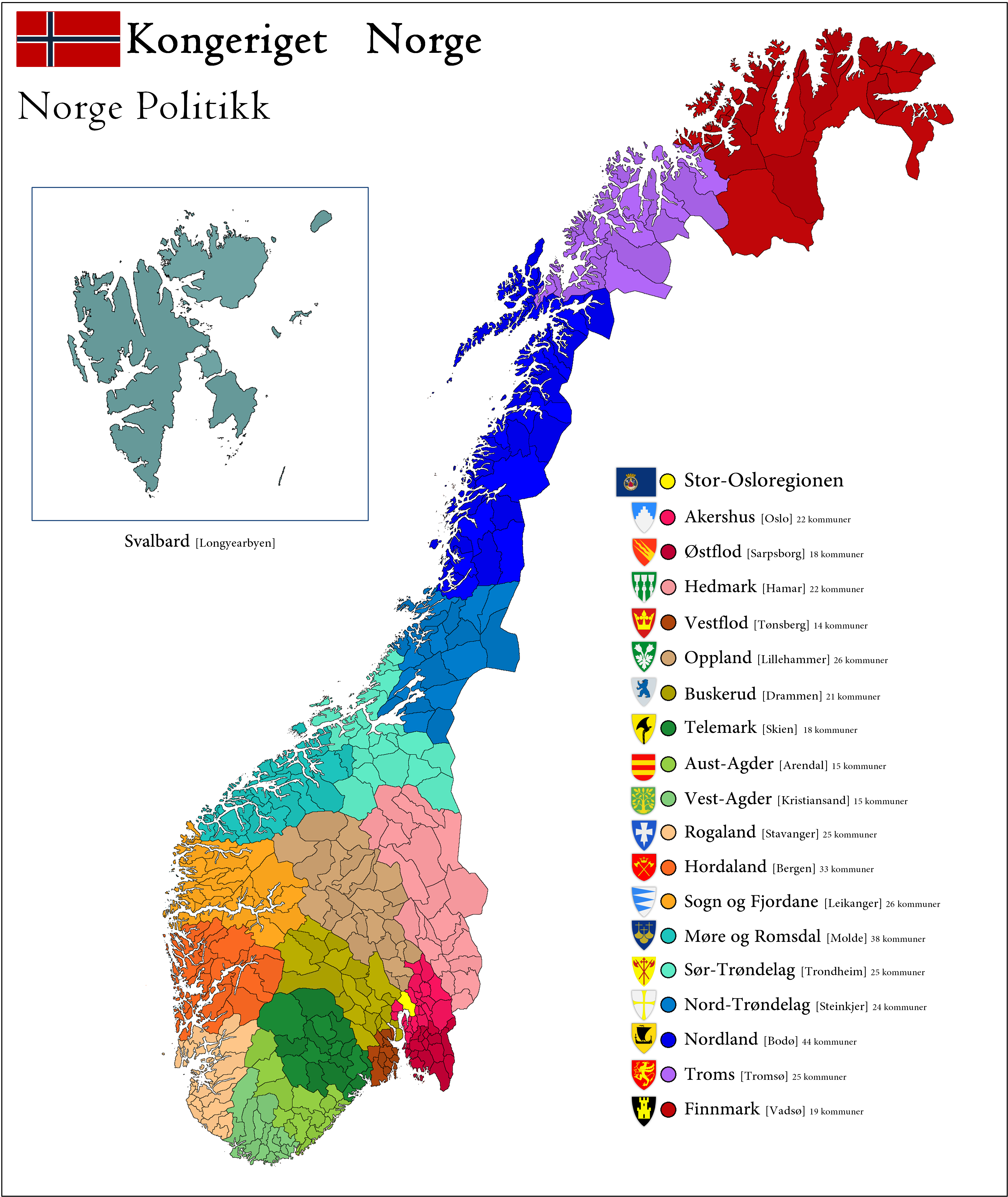 Norwegian Regions